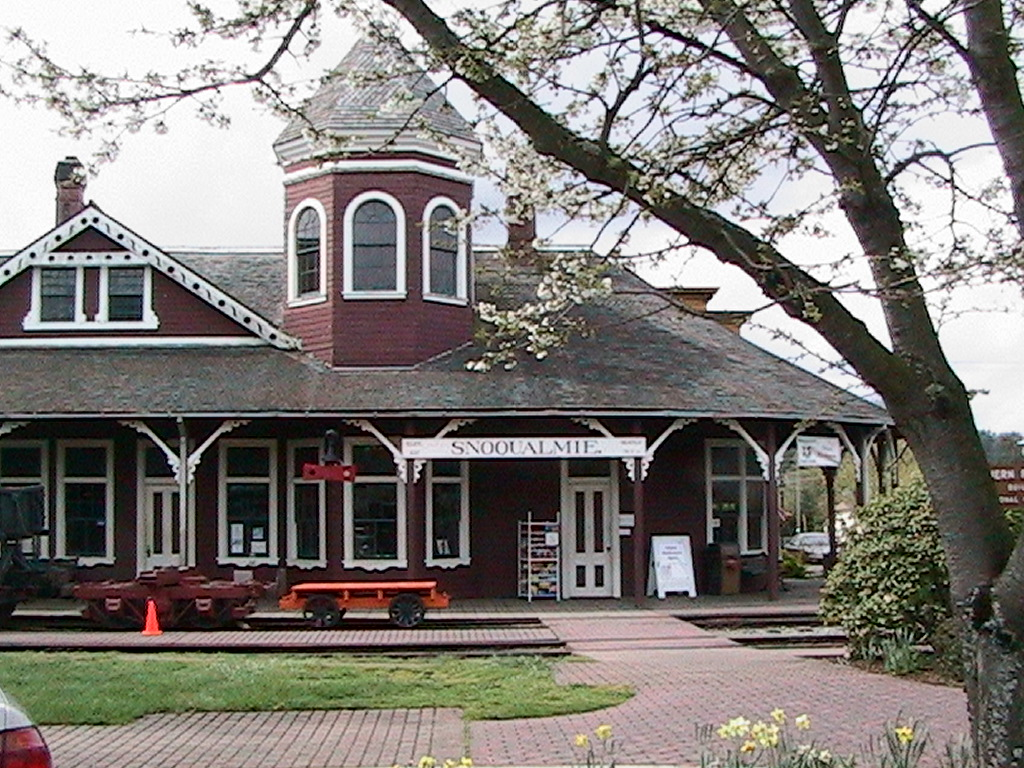 Snoqualmie Depot, photo by Max Richards